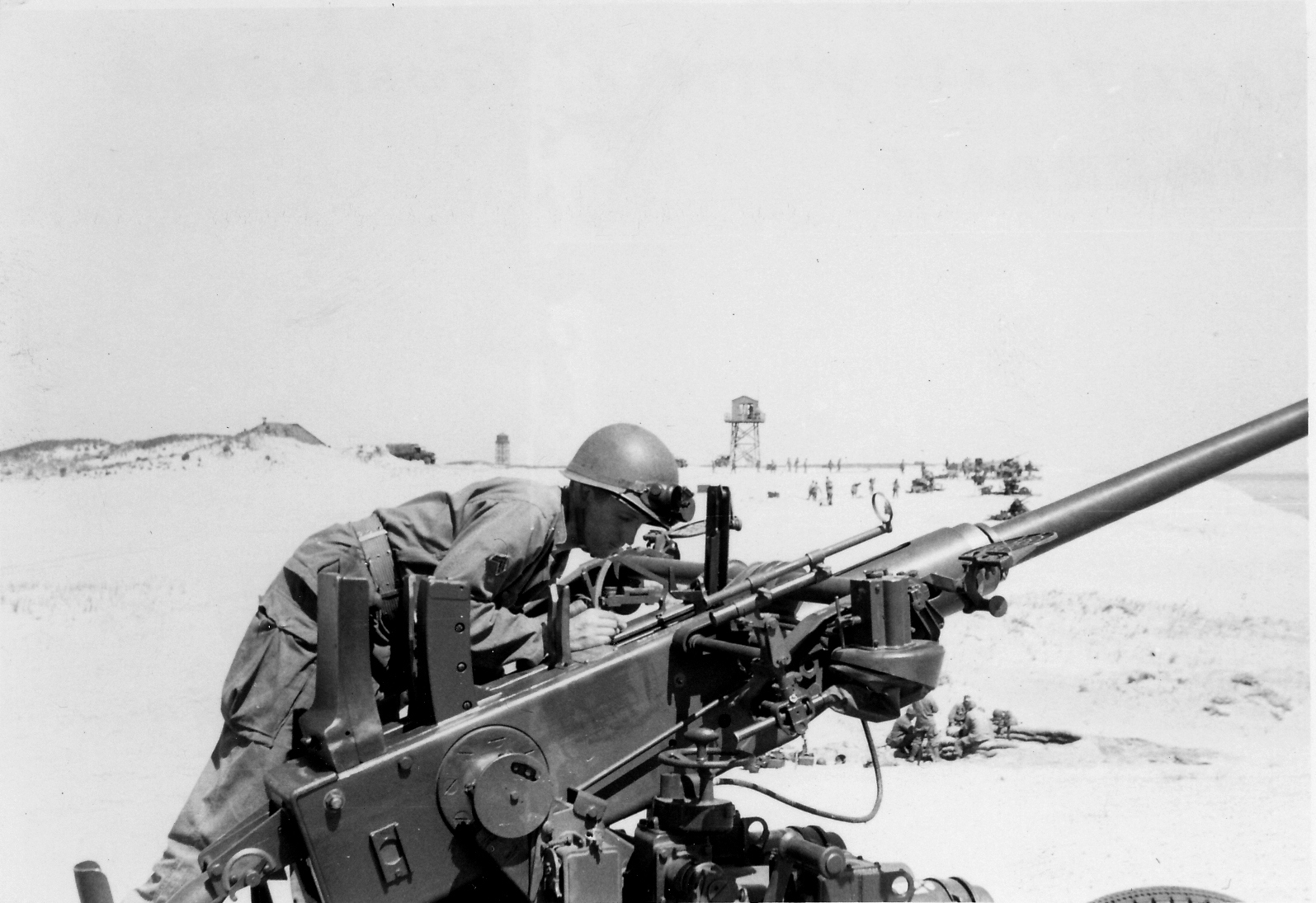 The gunner checking elevation with gunner’s quadrant.